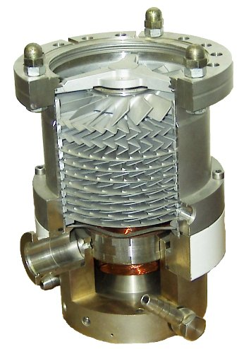 A cut-through turbomolecular pump model. The different rotor sizes and grain sizes can clearly be seen.